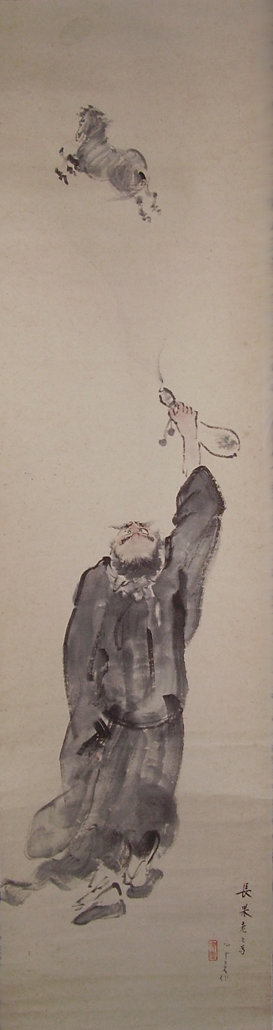 Elder Zhang Guo "decanting" a horse; detail of painting from Japan; working print, for use on wikipedia articles, etc.